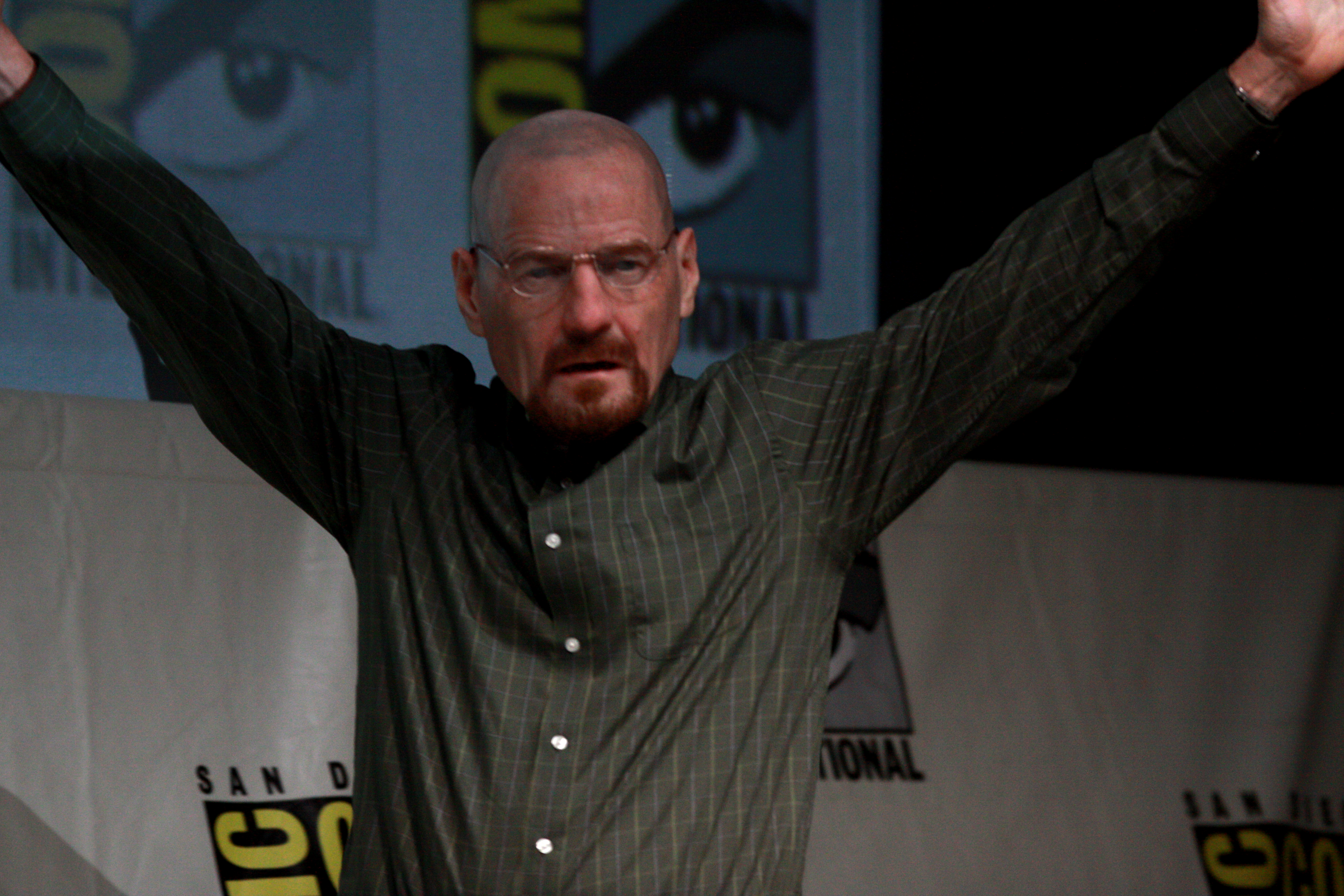 Bryan Cranston speaking at the 2013 San Diego Comic Con International, for "Breaking Bad", at the San Diego Convention Center in San Diego, California.